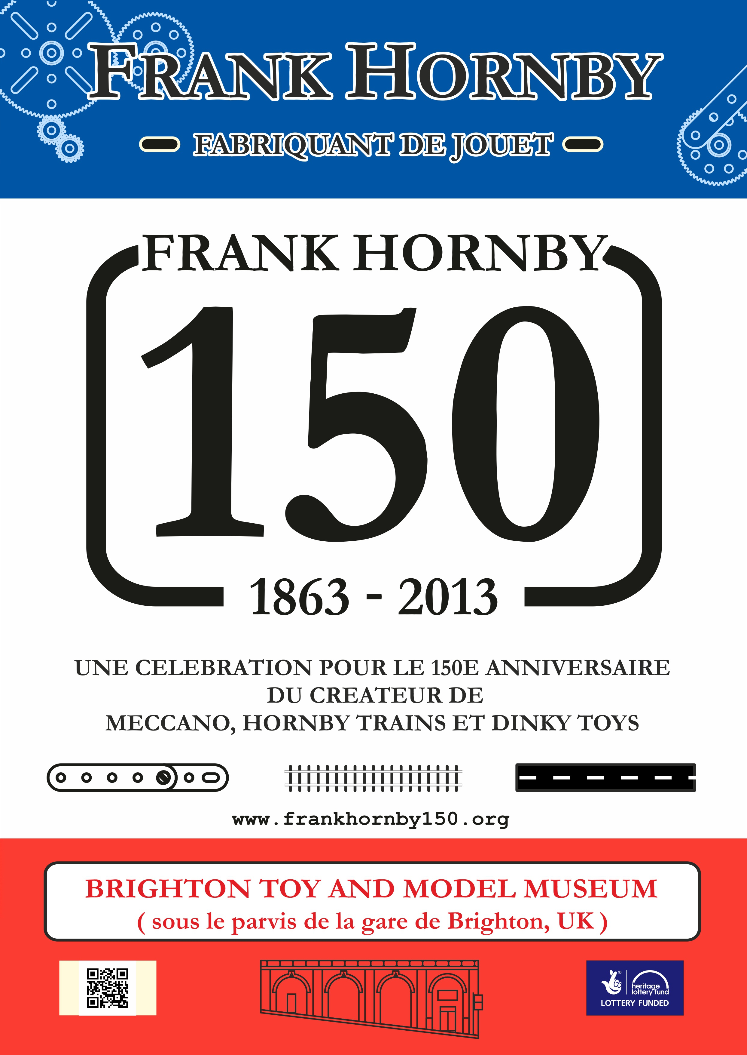 Poster, for the 150th Anniversary of Frank Hornby (French version), Brighton Toy and Model Museum